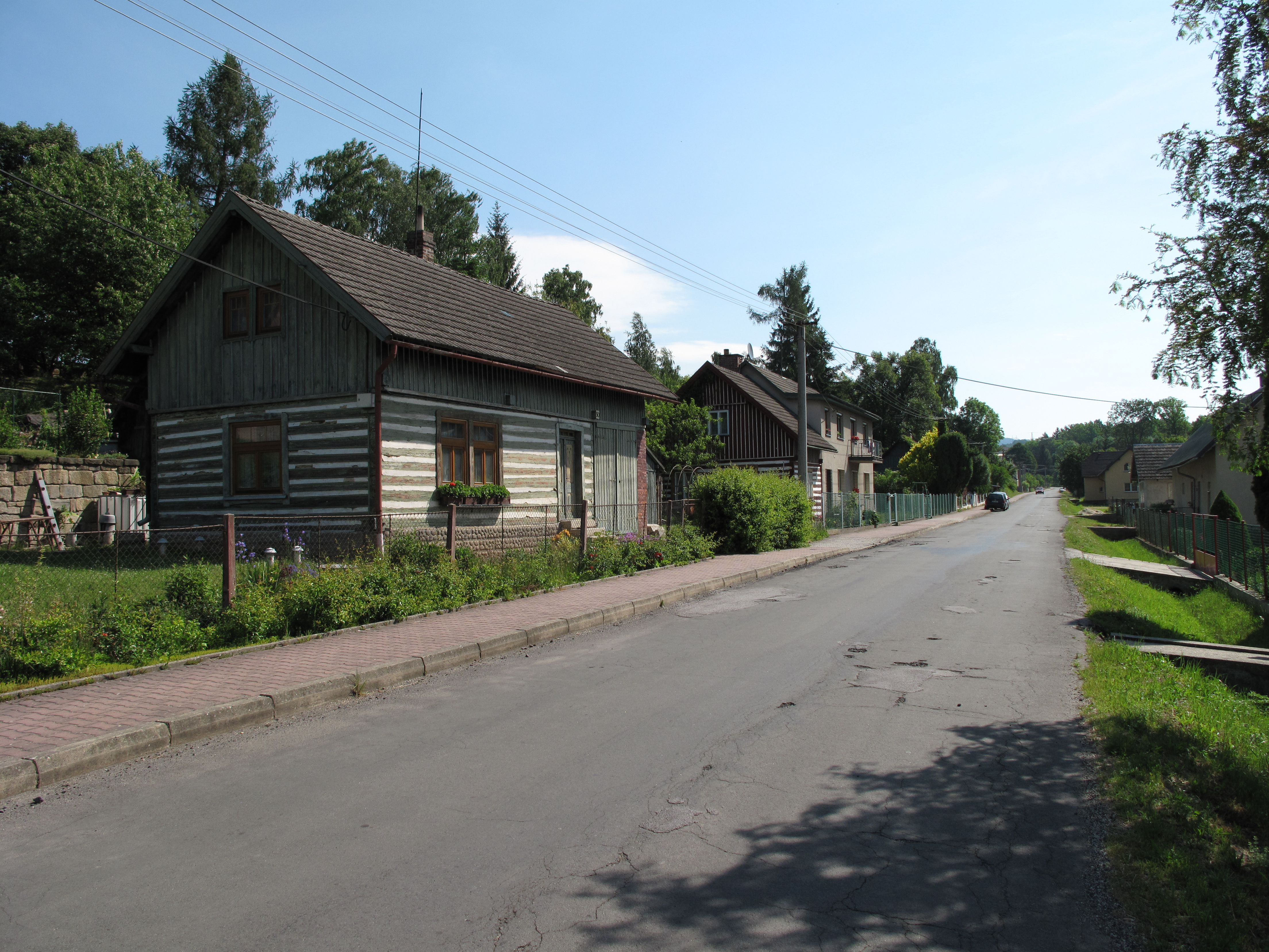 Road with log cabin no. 50 in Sedmihorky village, Semily District, Czech Republic.